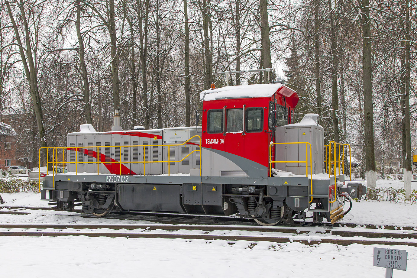 Diesel locomotive TEM31M-007 Russia, Moscow region, Kolomna, VNIKTI